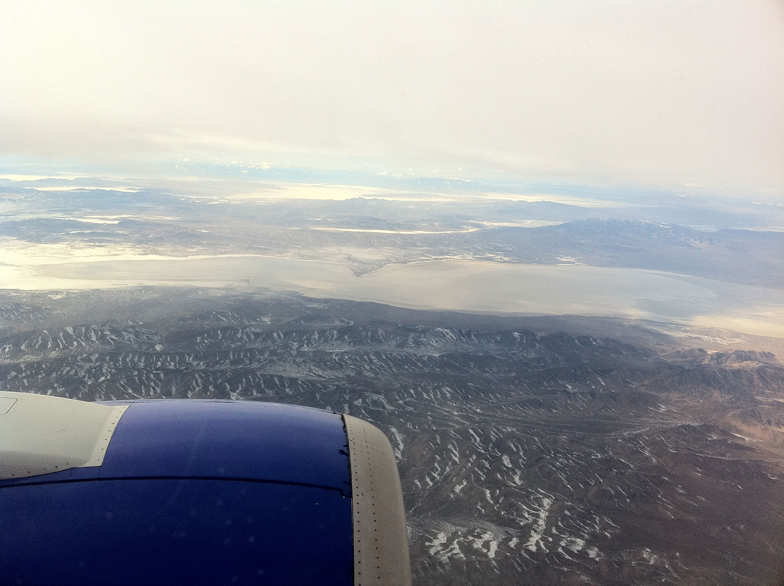 Image of Sevier Lake in the Great Basin region of Utah. View from a plane looking due-west: including: The Cricket Mountains are below, then Sevier Lake (north section & south section), and Wah Wah Valley Hardpan (off photo to left), the House Range, then Tule Valley, north; the Wah Wah Valley, south. The Confusion Range borders west, then the larger: Ferguson Desert. In Millard County, western Utah.